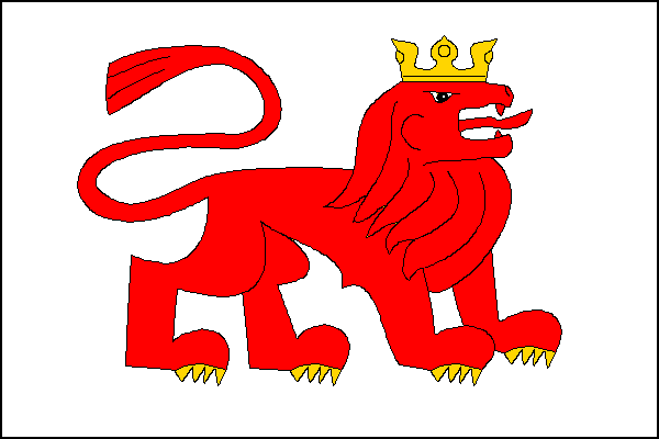 Municipal flag of Konstantinovy Lázně village, Tachov District, Czech Republic.